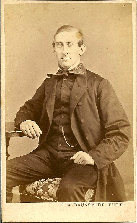 Swedish politician from late nineteenth century